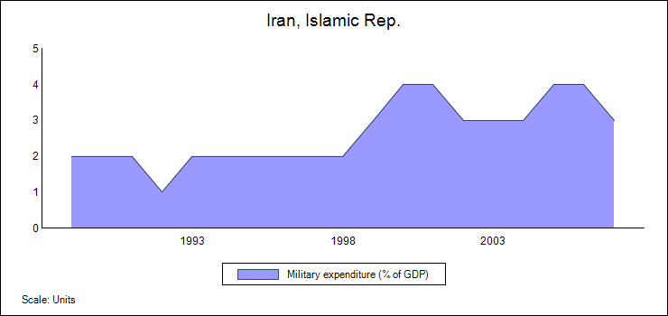 Military expenditure (%GDP), Iran.